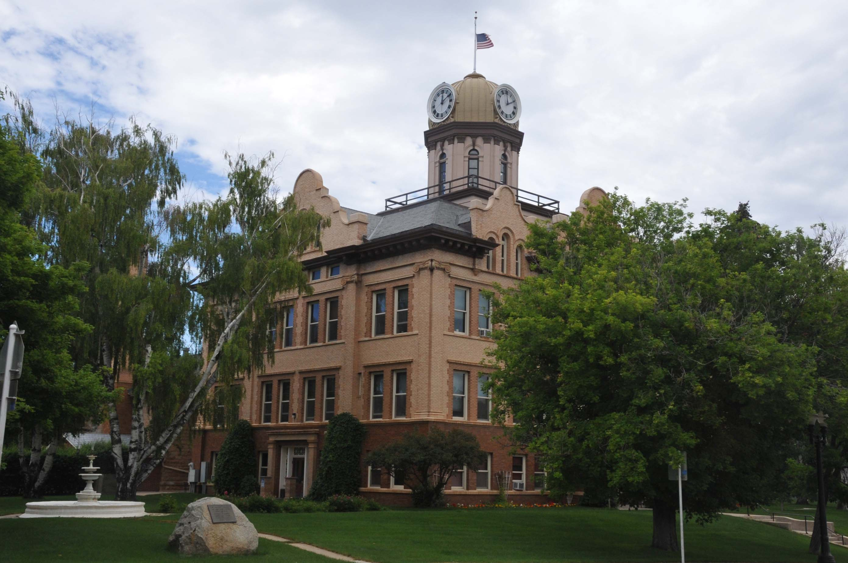 BRICK COURTHOUSE WAS BUILT IN 1907